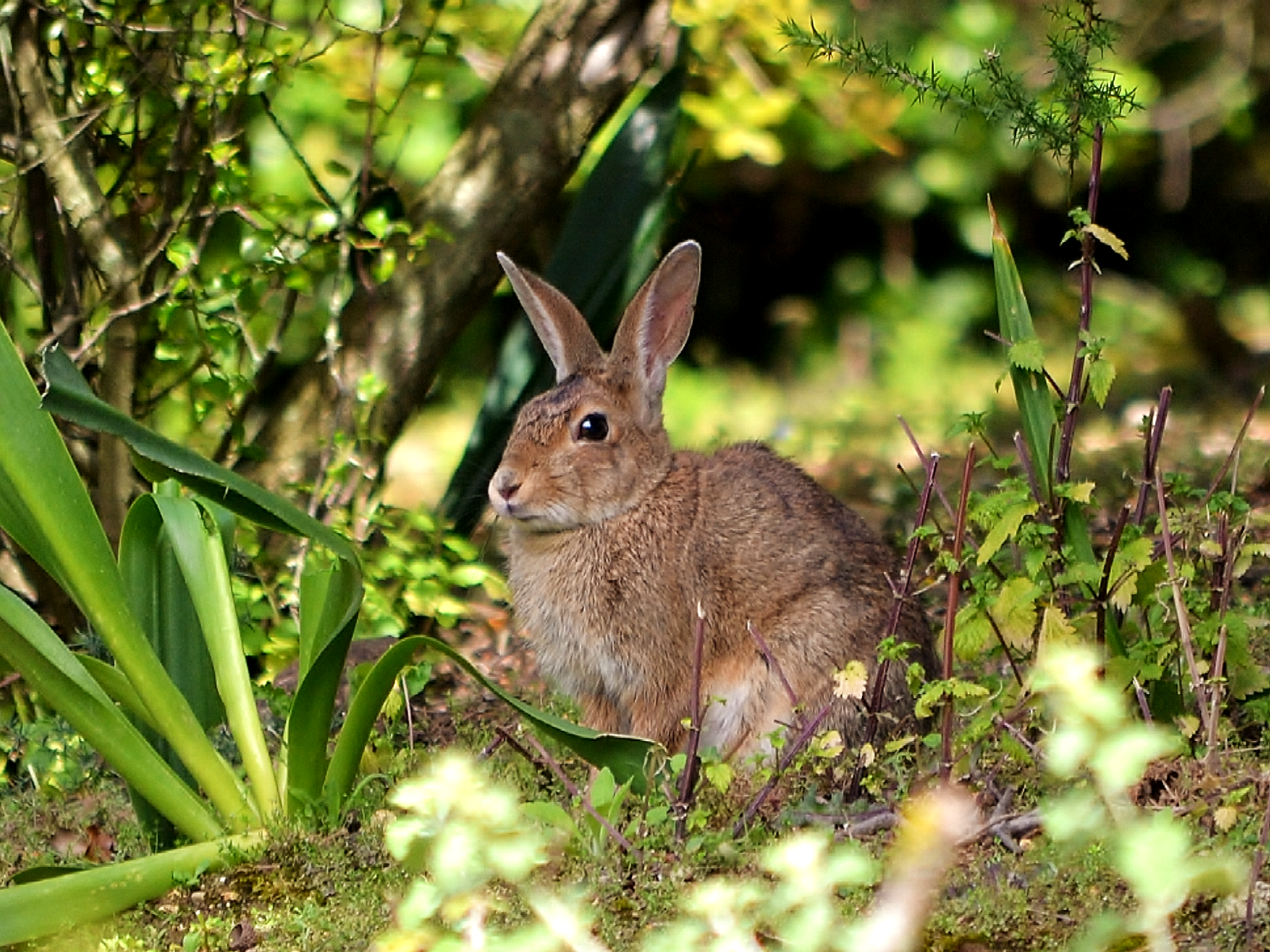 European rabbit or common rabbit (Oryctolagus cuniculus). In Oeiras, Portugal. Wild adult female.